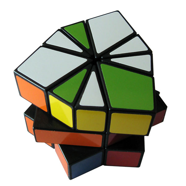 A Square-1 in a scrambled configuration. Note that this puzzle has an aftermarket set of stickers, but the colors and arrangement are identical to those of the original puzzle.